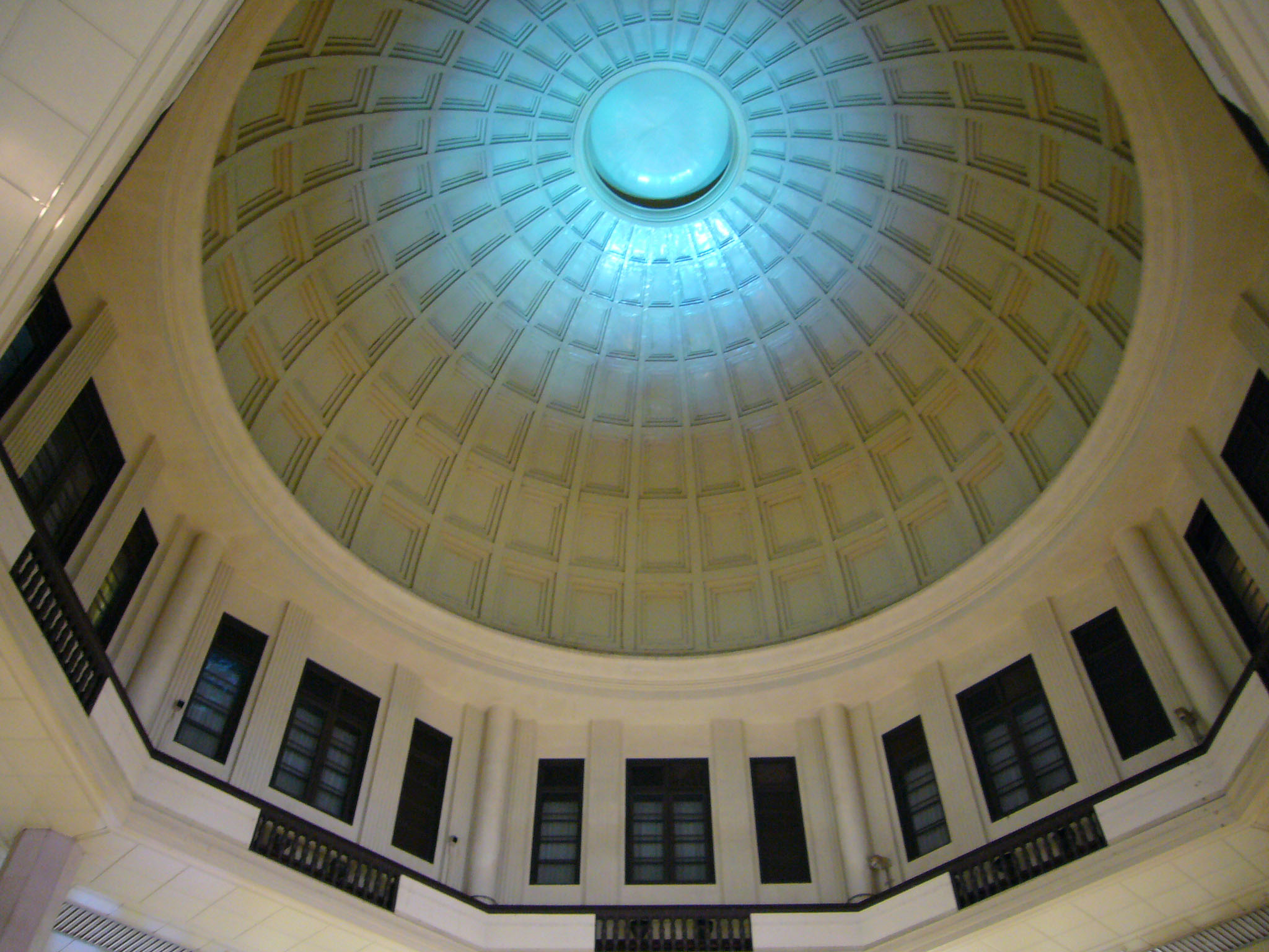 Interior (pre-restoration) of dome interior of the Tokyo Station (Marunouchi building).